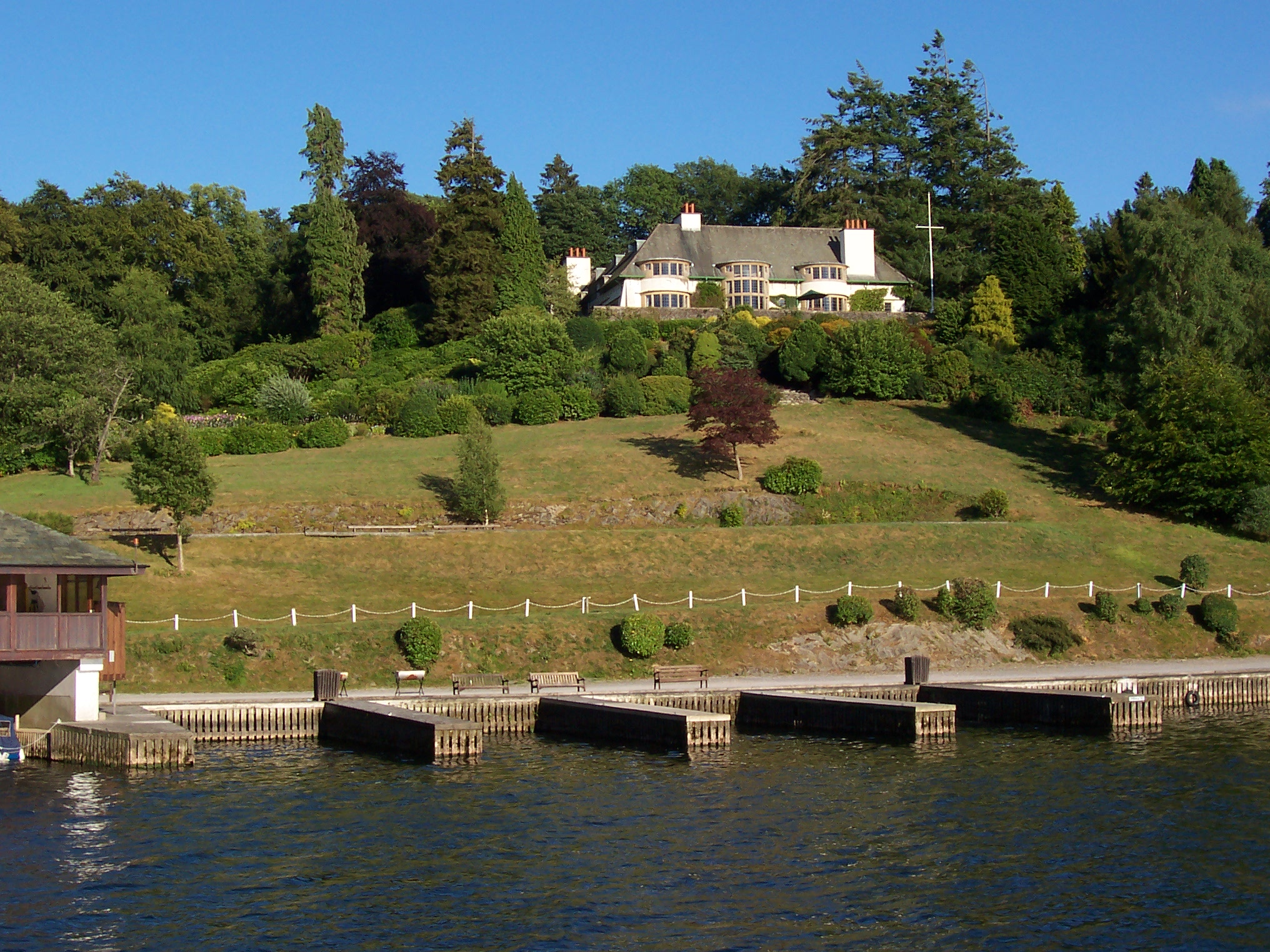 Charles Francis Annesley Voysey (British, 1857-1941): Broad Leys House, 1898, Ghyll Head, Windermere, Cumbria, headquarters of the Windermere Motor Boat Racing Club (WMBRC founded in 1925). Broad Leys was originally built for the owners of Kendal Milne Department Store in Manchester. In 1951 it was acquired by WMBRC and became the home of powerboat racings on lake Windermere until the introduction of a 10mph speed limit in 2005.